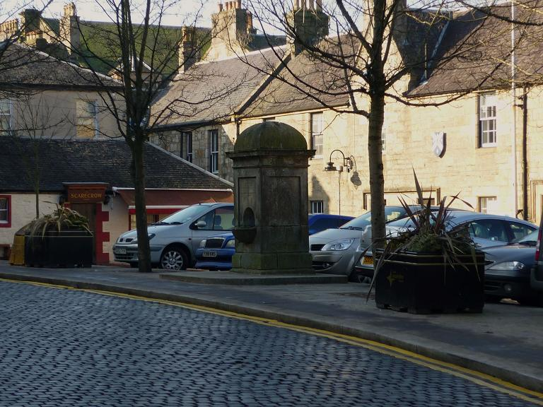 The Fountain, Market Square